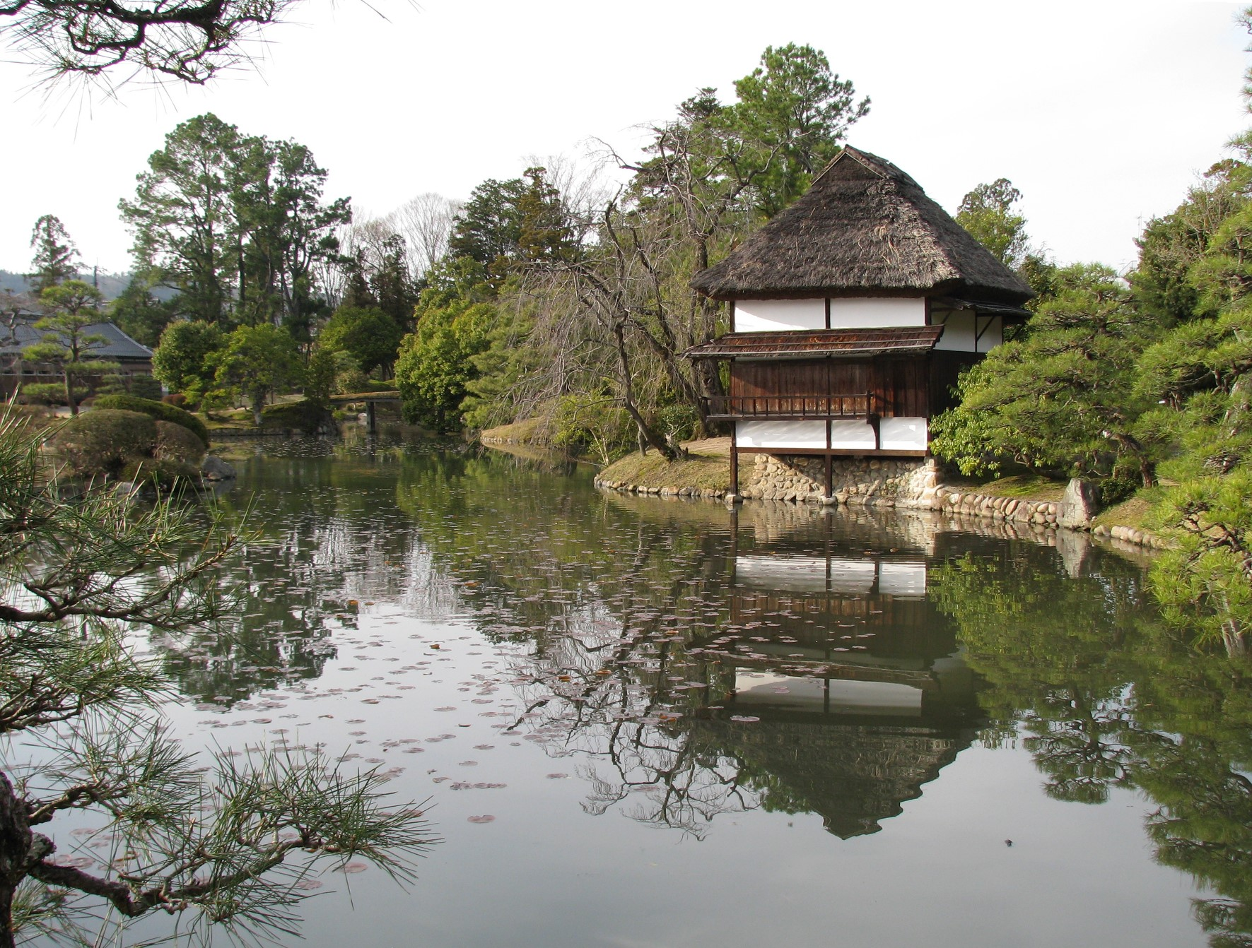 Shurakuen garden Tsuyama